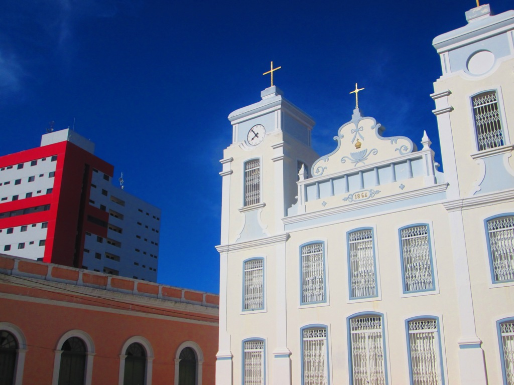 Arquitetura seridoense.